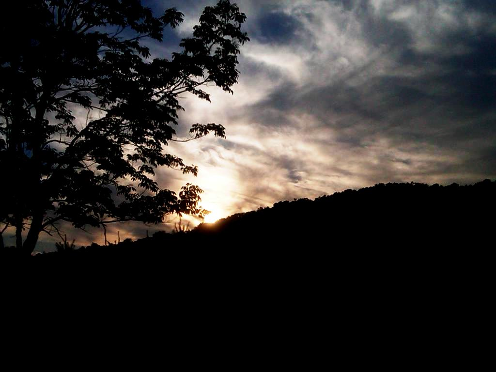 Night Sky.